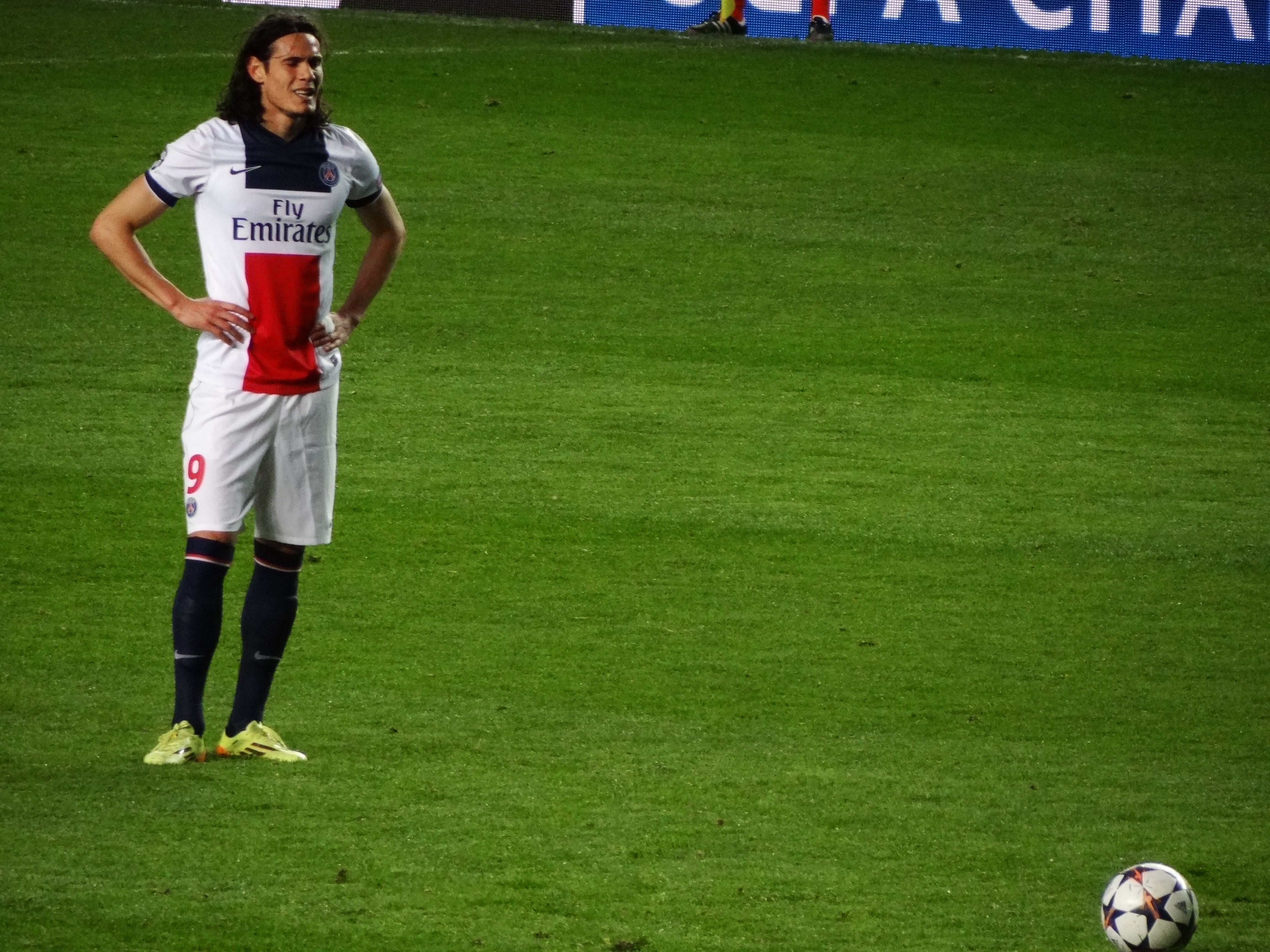 Edinson Cavani taking a free-kick in a UEFA Champions League quarter-final match against Chelsea.